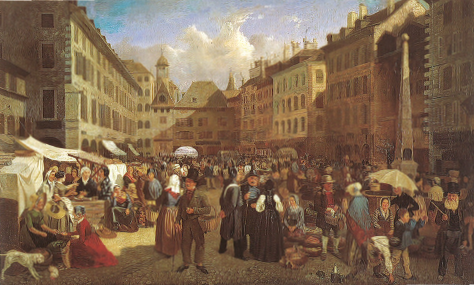 Public market on the "place du Molard" of Geneva in 1843